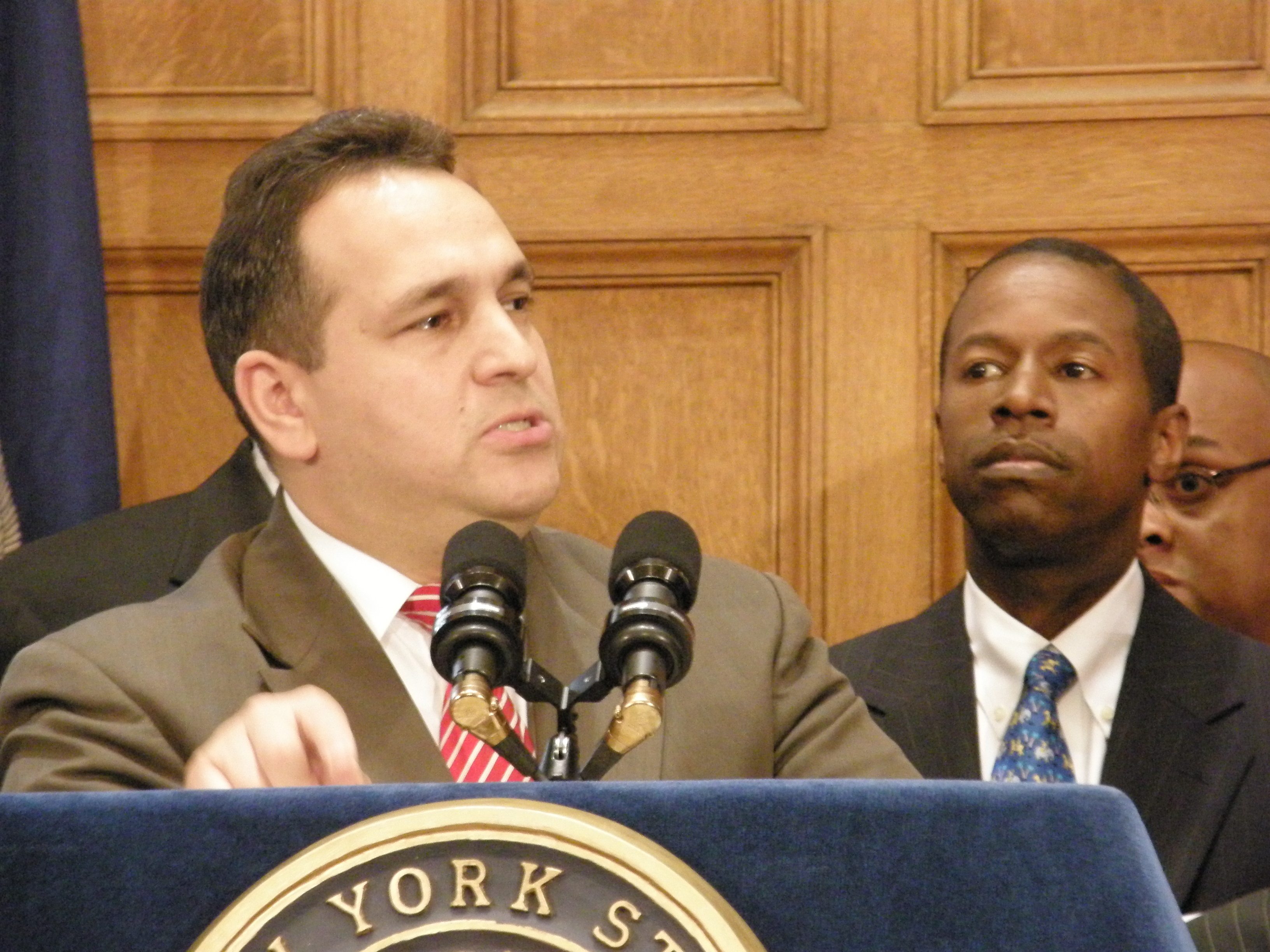 Hiram Monserrate announces that he will defect from the coalition, and return to caucus with the Democrats in the 2009 New York State Senate leadership crisis